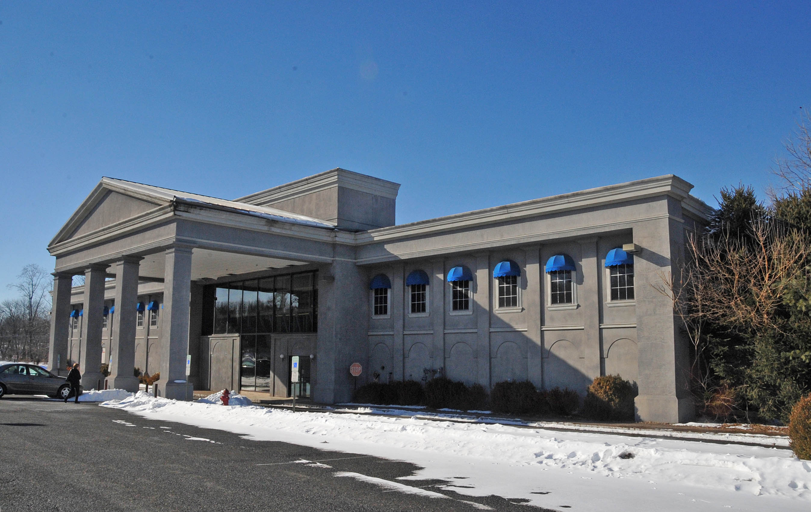 THIS IS A VIEW OF THE MUSEUM WHICH FEATURES THE LARGEST MODEL RAILROAD IN THE WORLD.